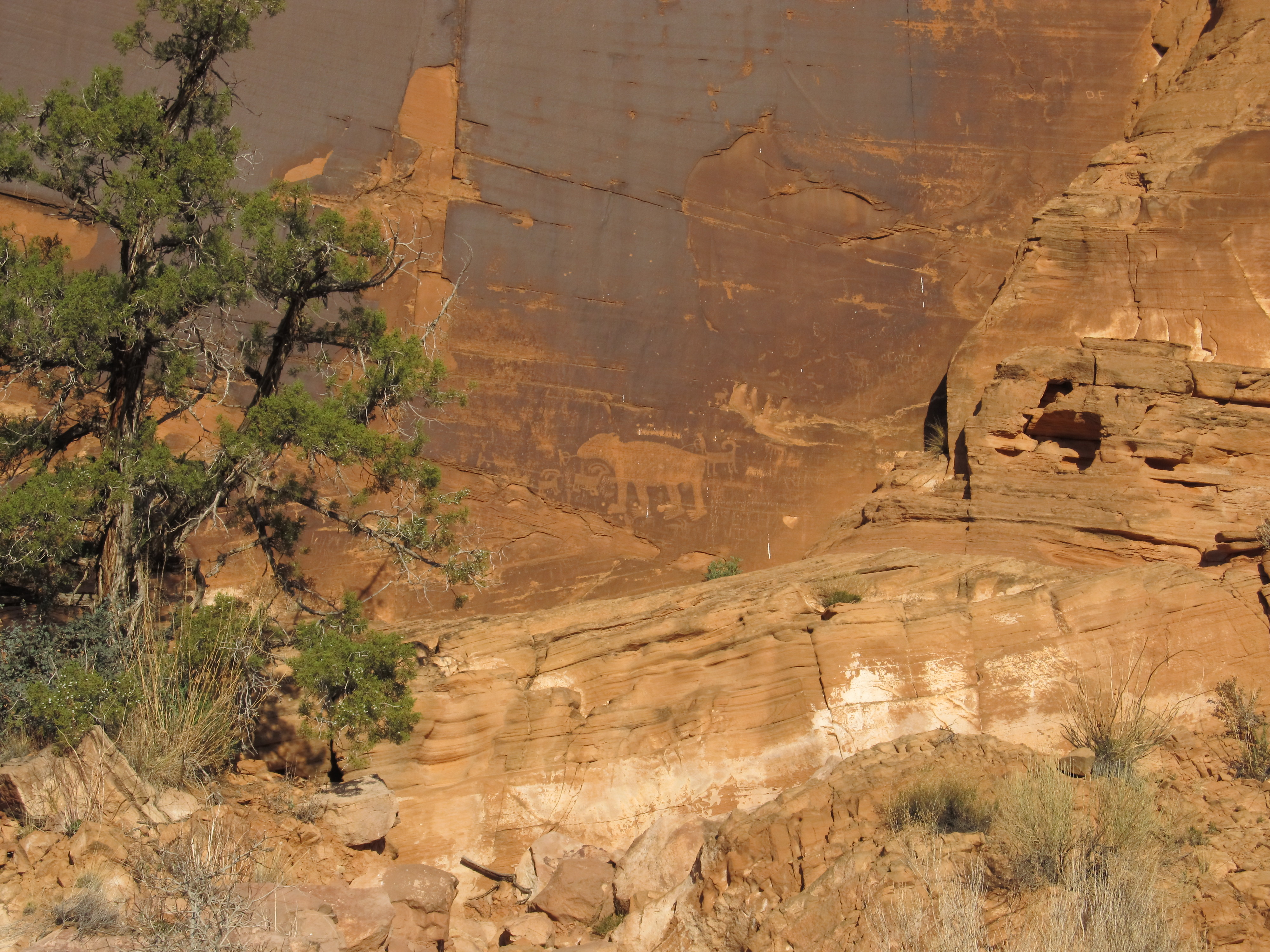 Petroglyphs on Potash Road,near Moab, Utah.